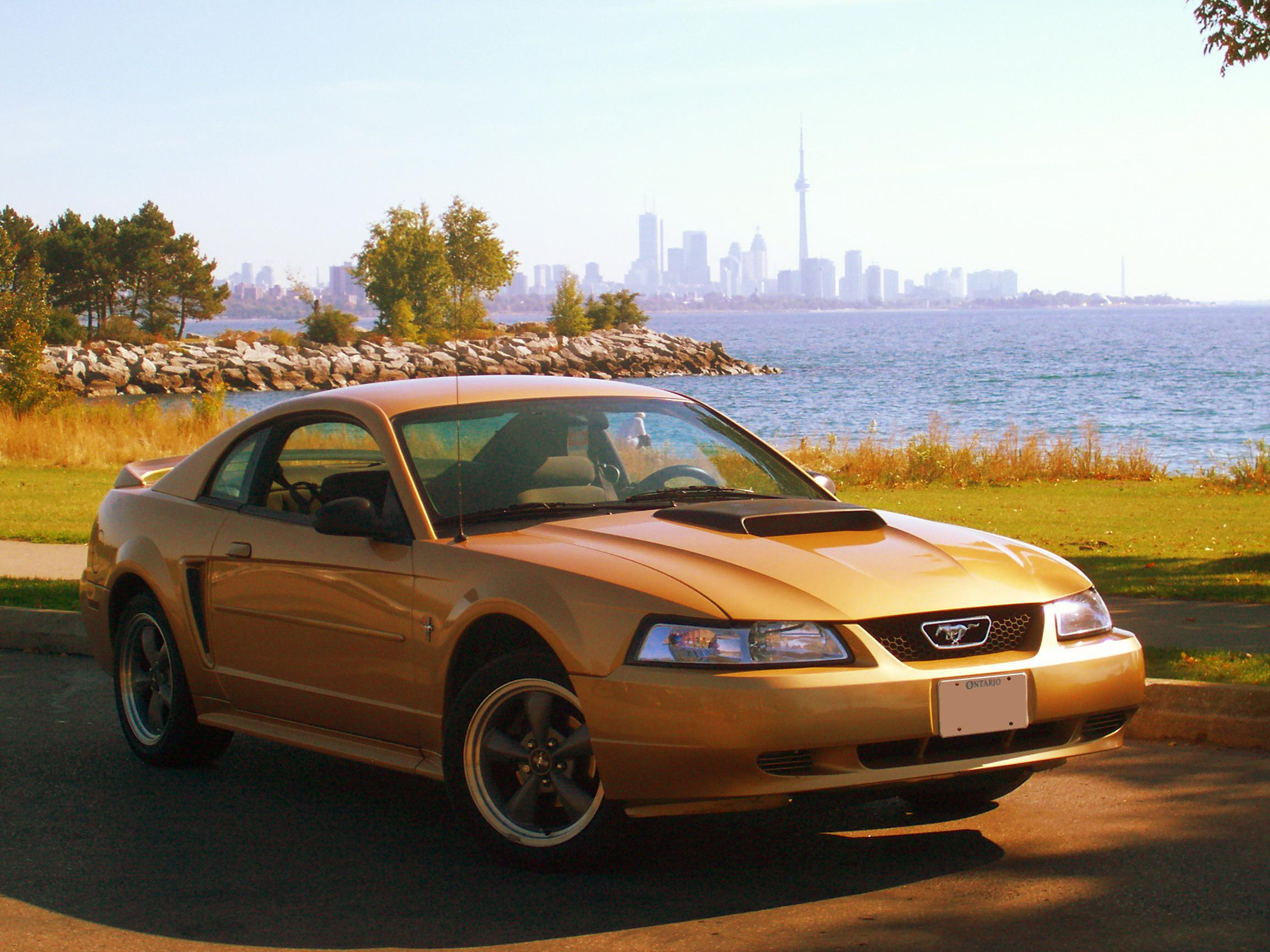 2000 Sunburst Gold Mustang Lx at the lake shore in Toronto, Canada